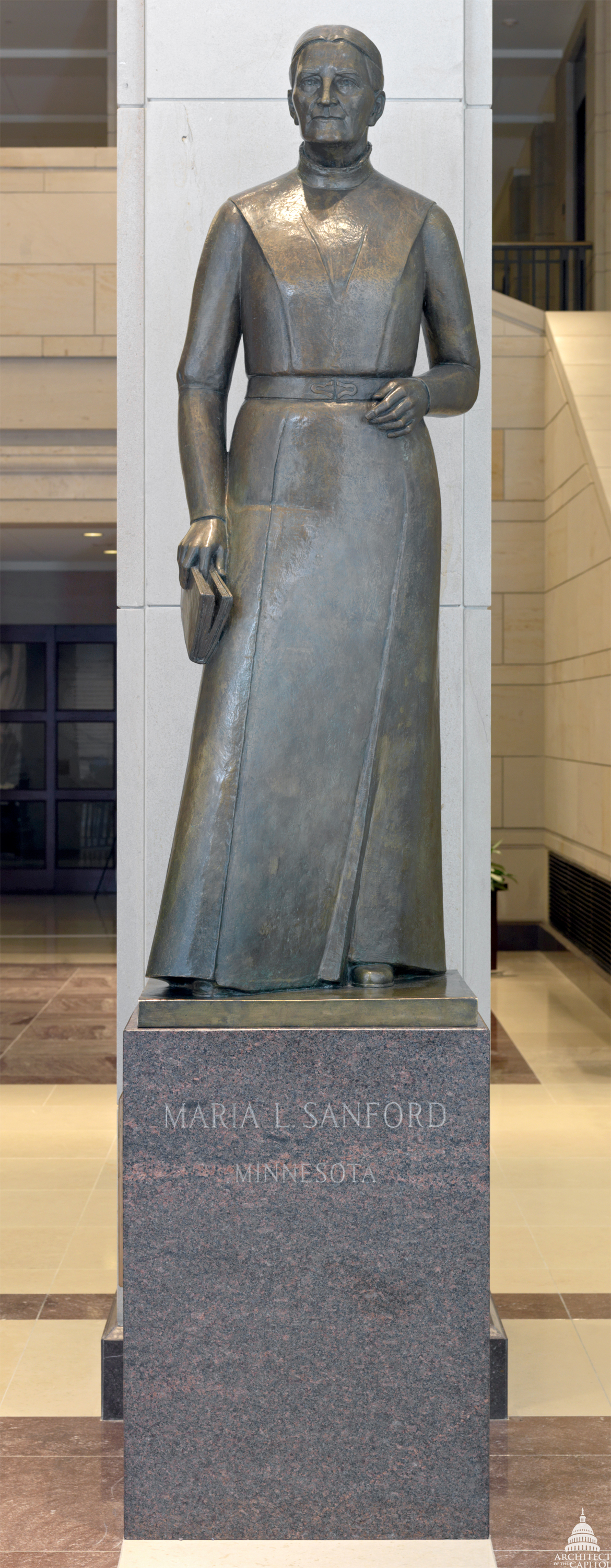 Maria L. Sanford (1836-1920) Minnesota Bronze by Evelyn Raymond Given in 1958 CVC Emancipation Hall U.S. Capitol Information about the life of Maria Sanford is available at: This official Architect of the Capitol photograph is being made available for educational, scholarly, news or personal purposes (not advertising or any other commercial use). When any of these images is used the photographic credit line should read “Architect of the Capitol.” These images may not be used in any way that would imply endorsement by the Architect of the Capitol or the United States Congress of a product, service or point of view. For more information visit